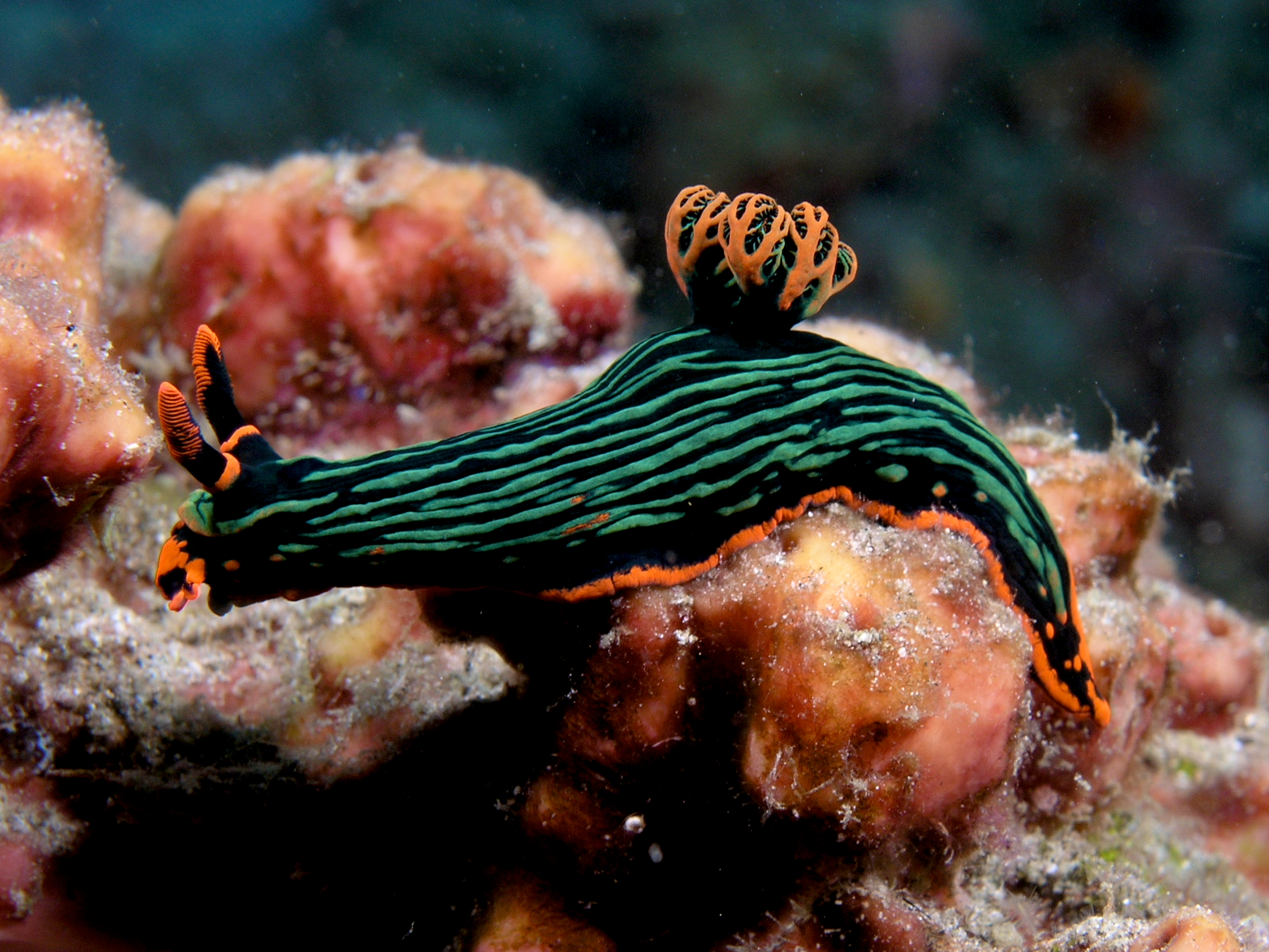 Nembrotha kubaryana (Nudibranch)